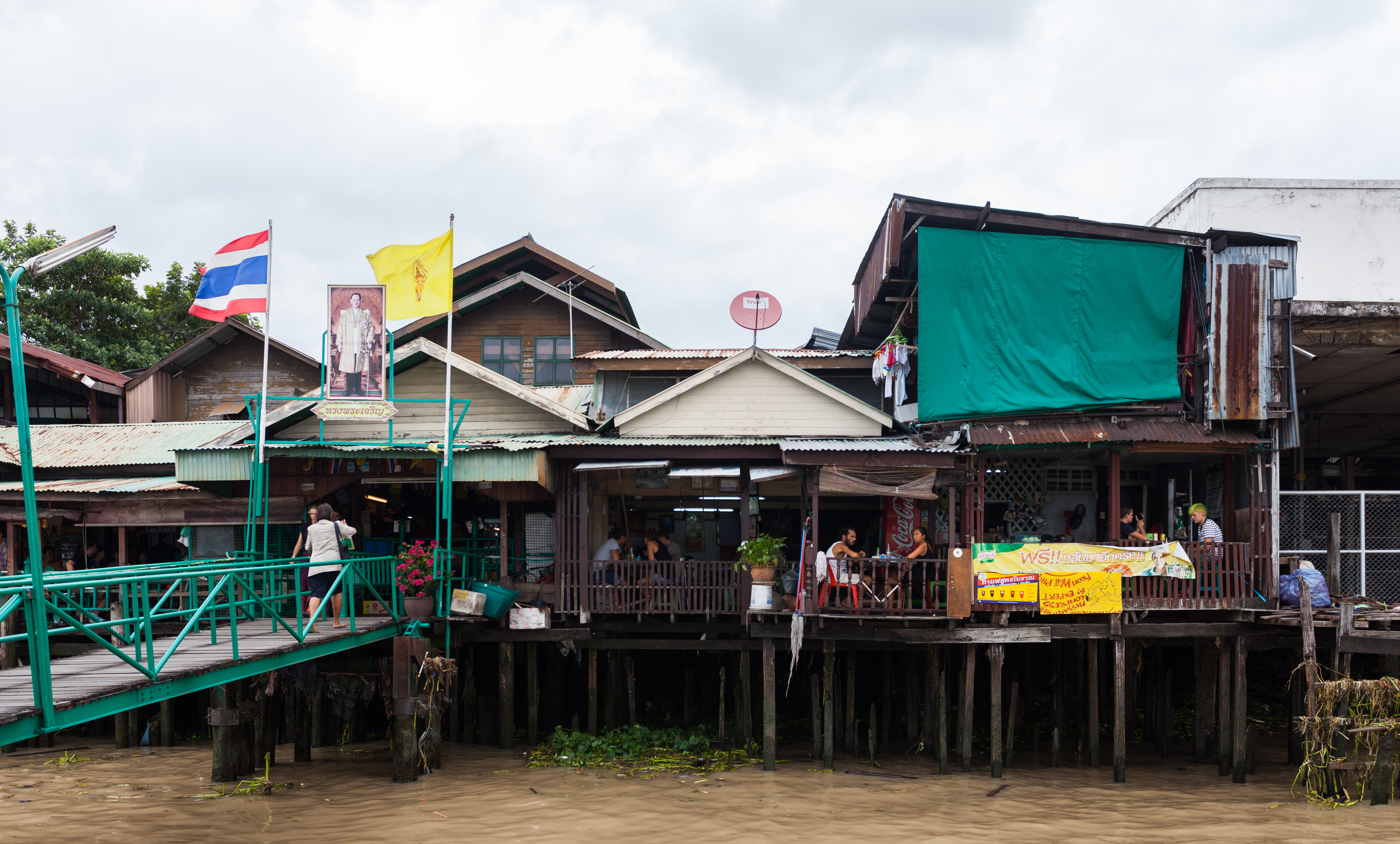 Chao Phraya river, Bangkok, Thailand